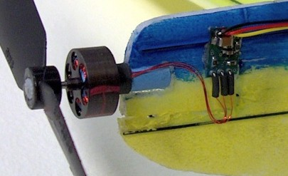 Photo of the nose of a Violator by Dynamics Unlimited; M-60-5-3 DC brushless motor with a BLC-1 controller (the small PCB). The photo and everything in it is my work. (Kenzi Mudge)